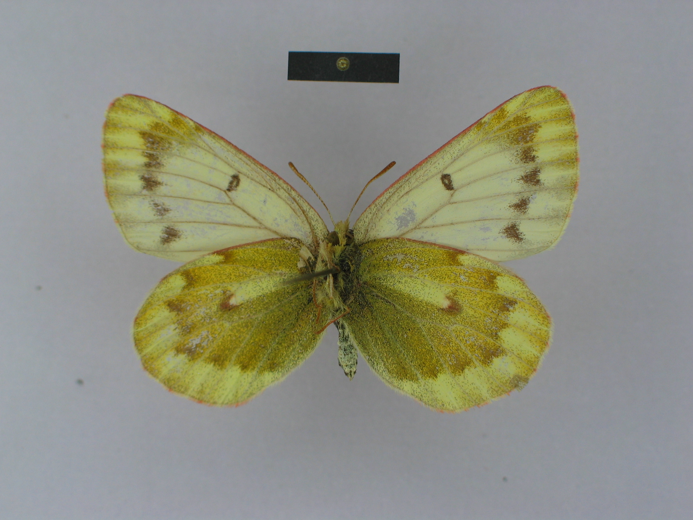 Specimen of the species Colias thrasibulus thrasibulus from the collection of the Zoologische Staatssamlung München; ♀ ventral side; scalebar=1 cm